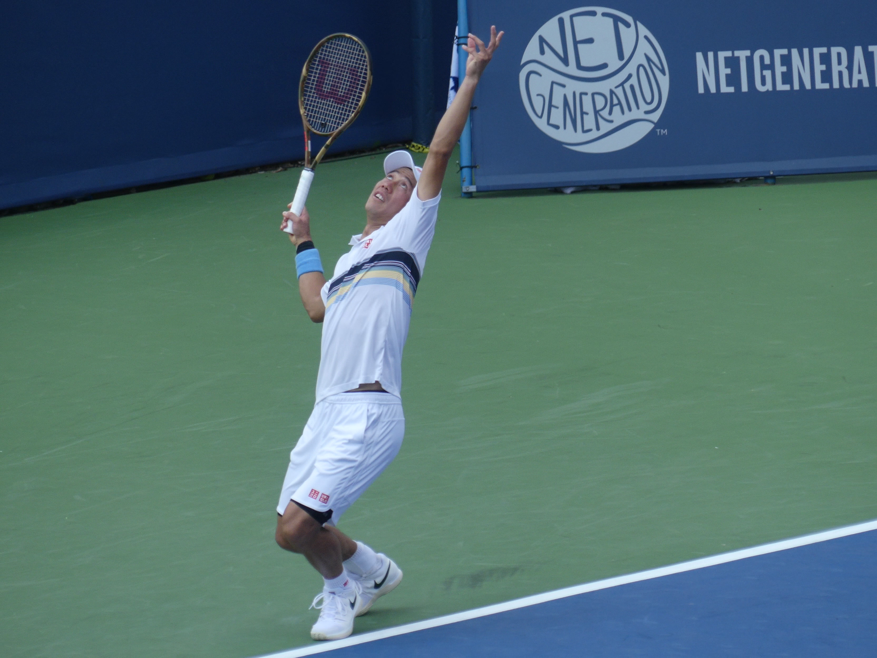 Kei Nishikori during his first round match of the 2018 Western and Southern Open against Andrey Rublev.